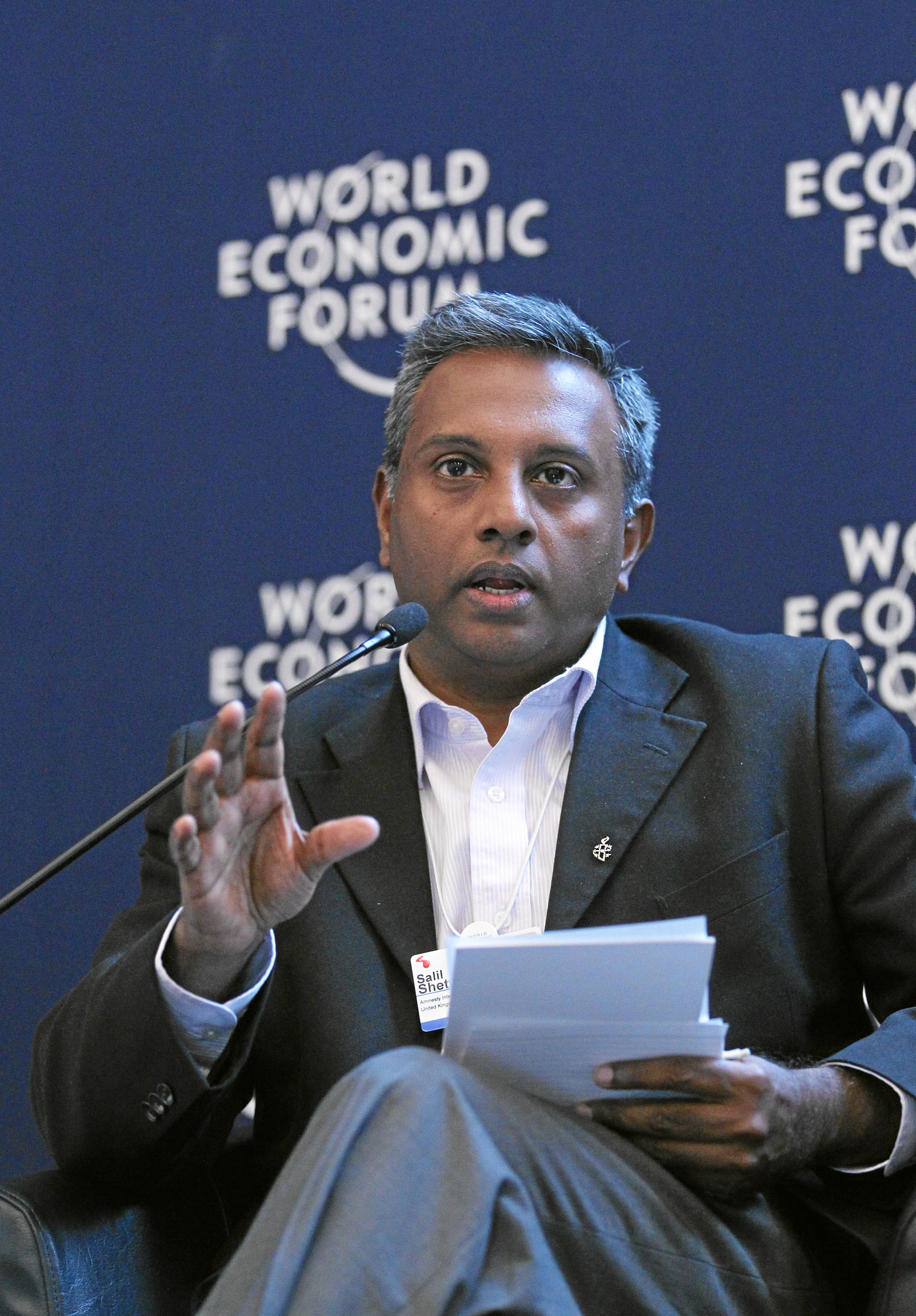 DAVOS/SWITZERLAND, 28JAN12 - Salil Shetty, Secretary-General, Amnesty International, United Kingdom; Global Agenda Council on Human Rights speaks during the session 'People Power' at the Annual Meeting 2012 of the World Economic Forum at the congress center in Davos, Switzerland, January 28, 2012. Copyright by World Economic Forum by Moritz Hager